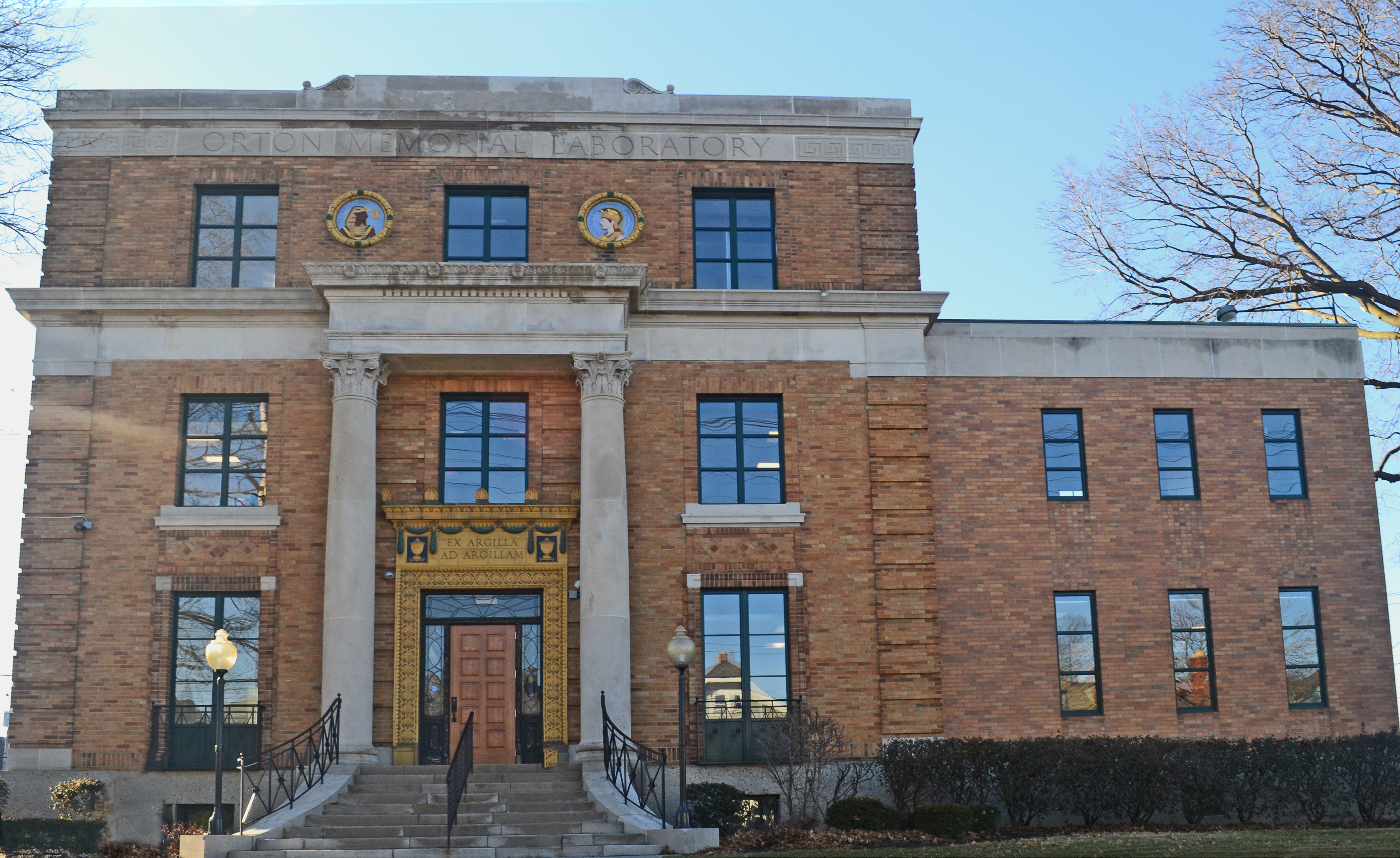 Photo taken in January 2014 after a complete restoration